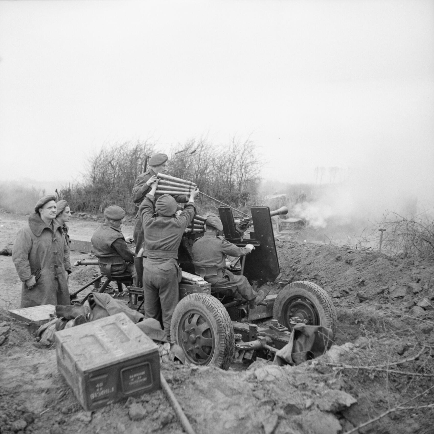 The British Army in North-west Europe 1944-45 40mm Bofors gun of 319 Battery, 92nd (Loyals) Light Anti-Aircraft Regiment in action in the ground support role east of the Rhine, 26 March 1945.